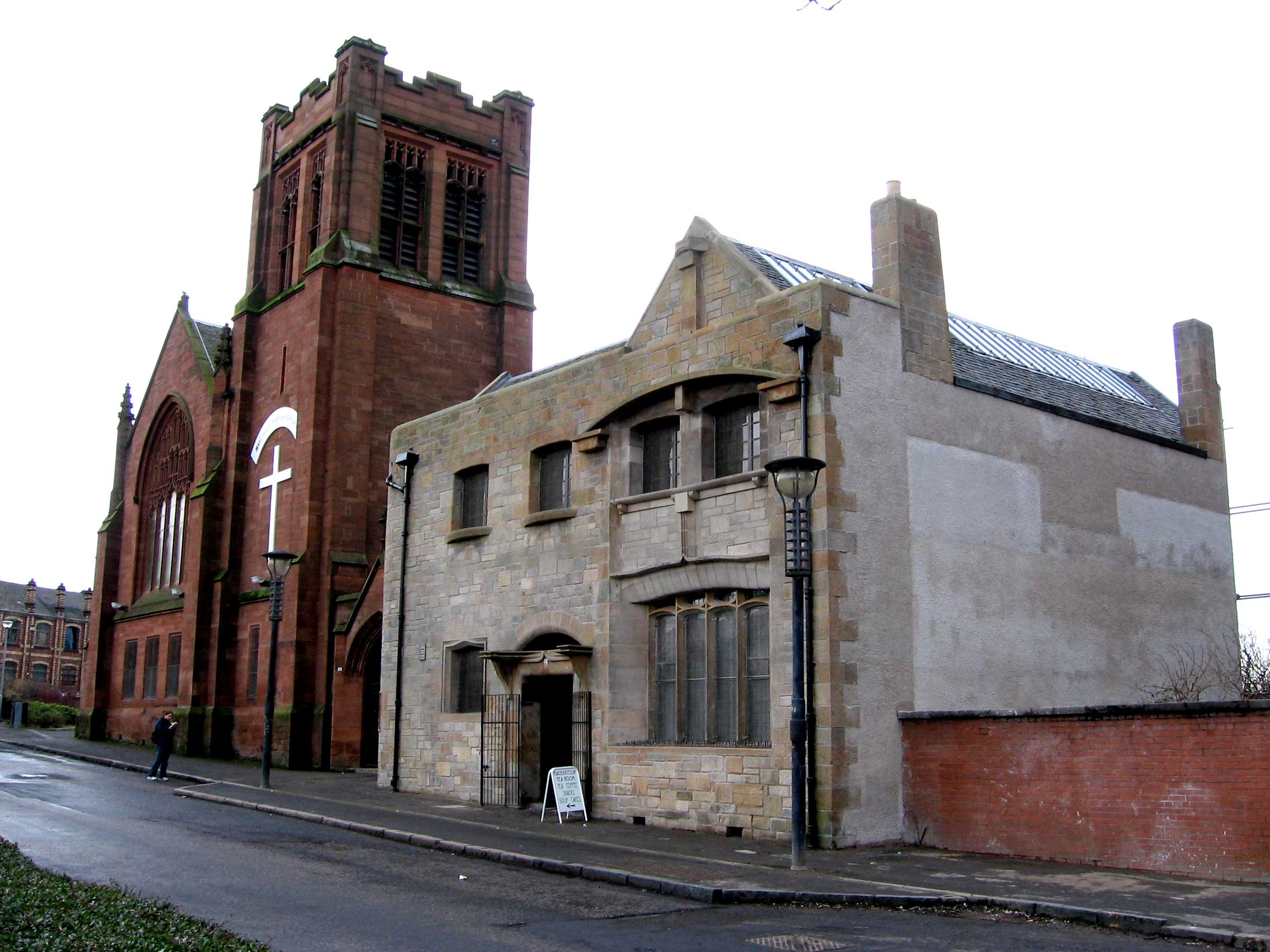 Ruchill Church Hall, Glasgow designed by Charles Rennie Mackintosh. photograph taken on 9 March 2006 by User:Dave souza. Any re-use to contain this licence notice and to attribute the work to User:Dave souza at Wikipedia.